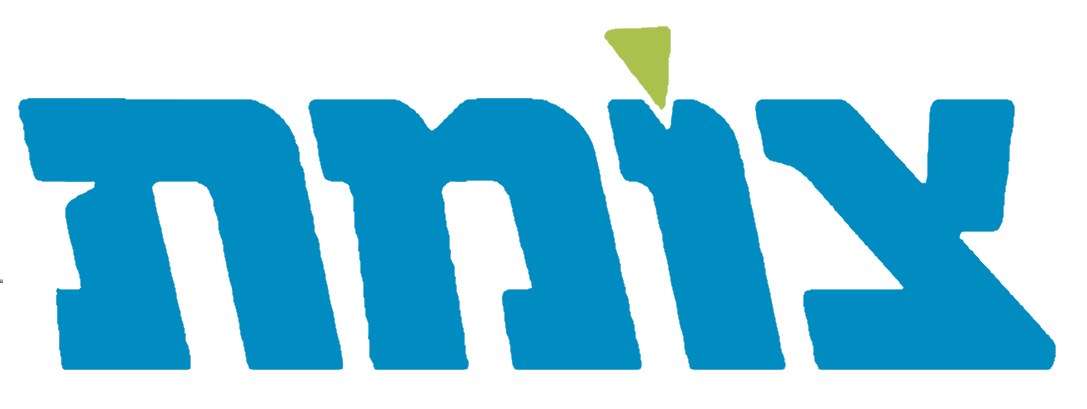 One version of the Tzomet Party logo used during the leadership of Oren Hazan.